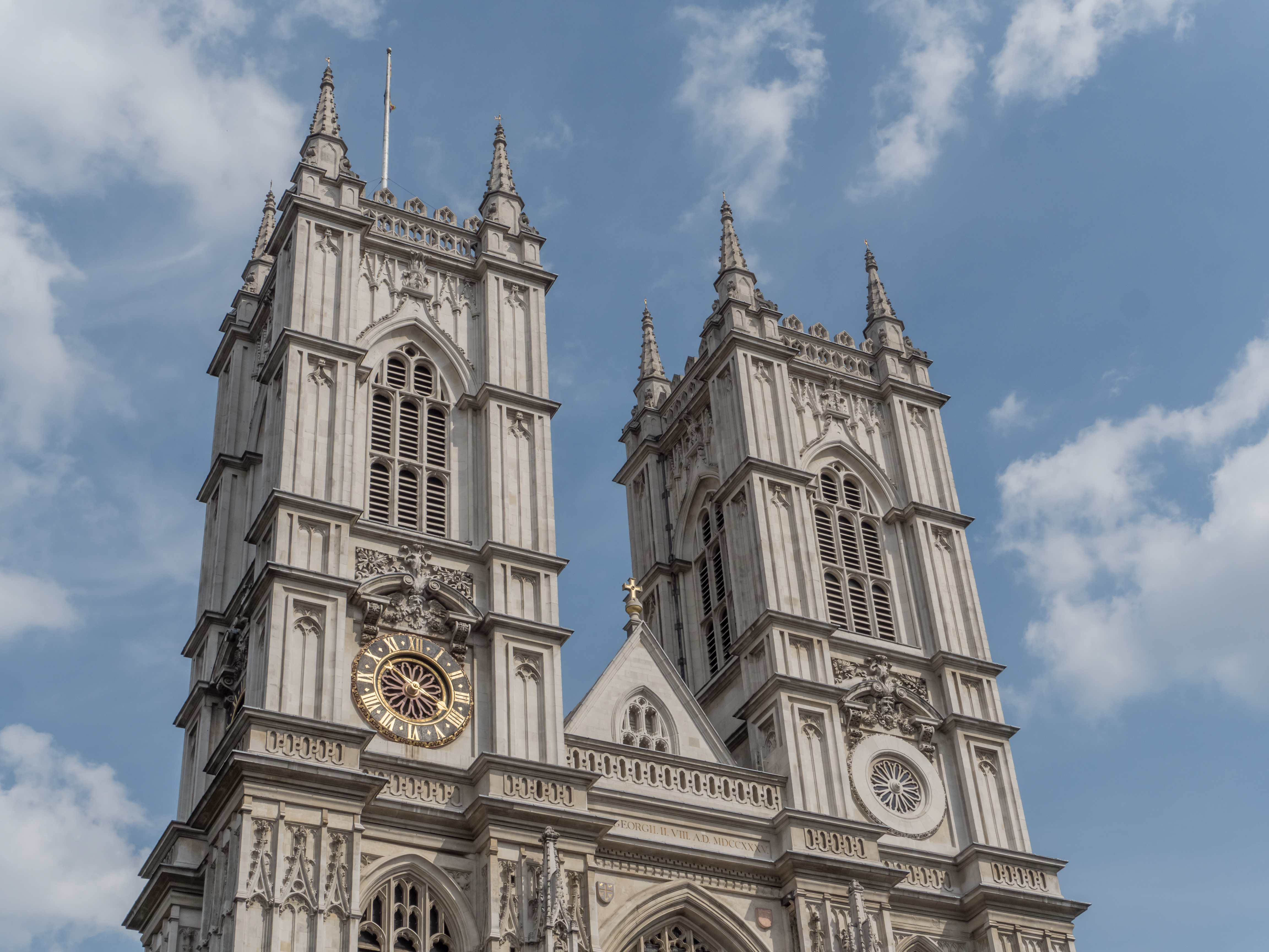 West side of Westminster Abbey in London